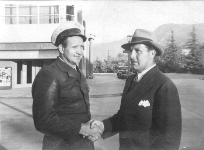 Harry Woolman (r) shaking hands with Walter Brennan (l) on the set of These Three (1936), where Brennan portrays a taxi driver for whom Woolman did the stunt-driving.